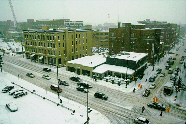 Snowy Grand Rapids, MI 12-23-08